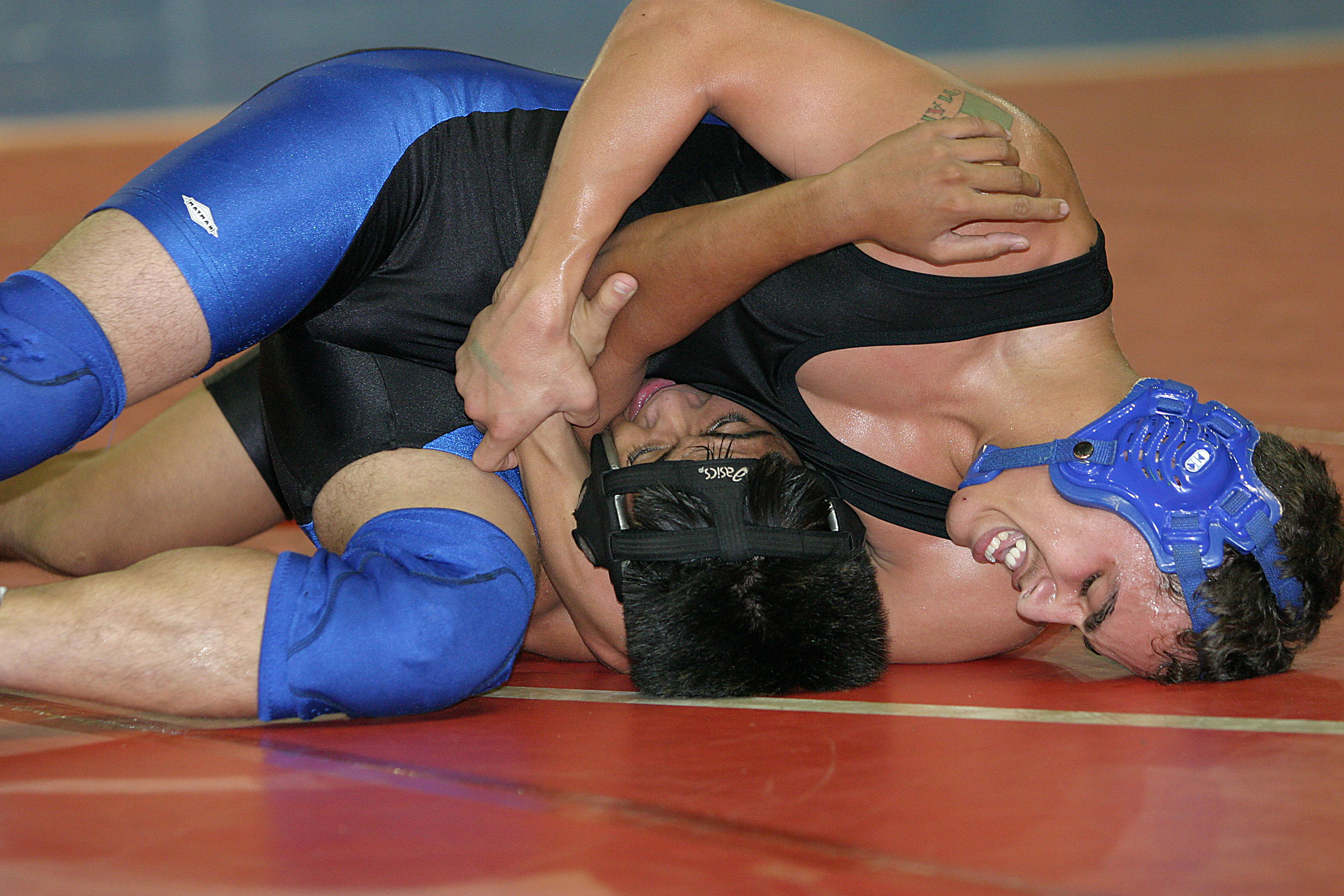 Christopher Bovo (top), gets his first opponent, Maruel Unrein iin a headlock near the end of his first match. Bovo defeated Unrein with east to advance to the next level in the competition. With full mobility in both arms, Bovo was a force to be reckoned with early in the day.